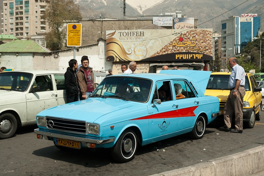 Paykan Taxi at Tajrish Square, Tehran.